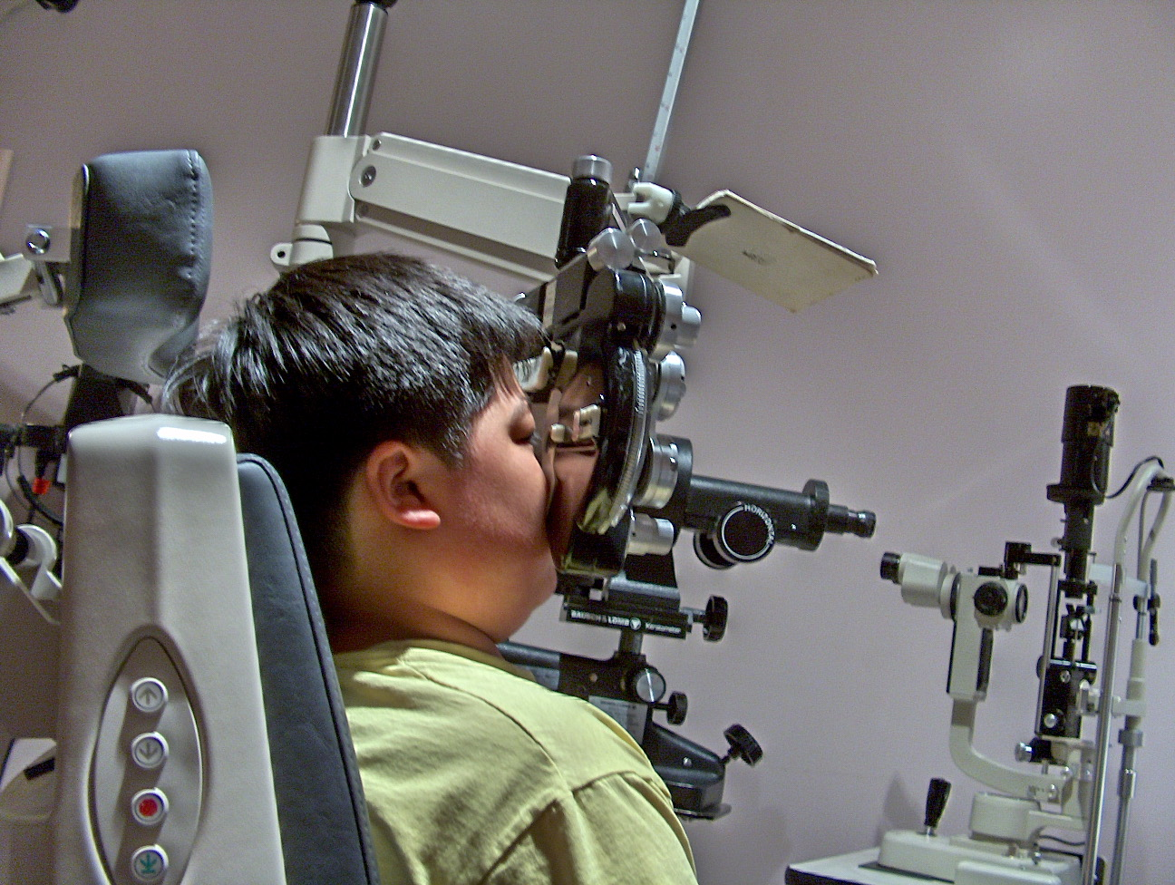 Rig used to determine vision prescription. This one or ... this one?